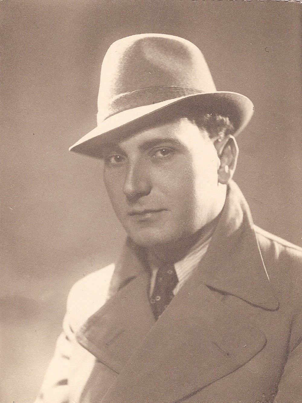 Gaetano Bonanni italian actor